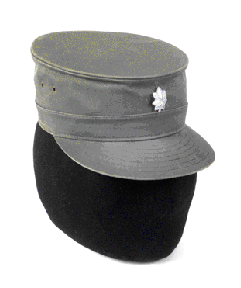 This is the M1951 olive drab cotton field cap, informally known as a "patrol cap", used by the US Armed Forces (along with others) starting at about the time of the Korean War.